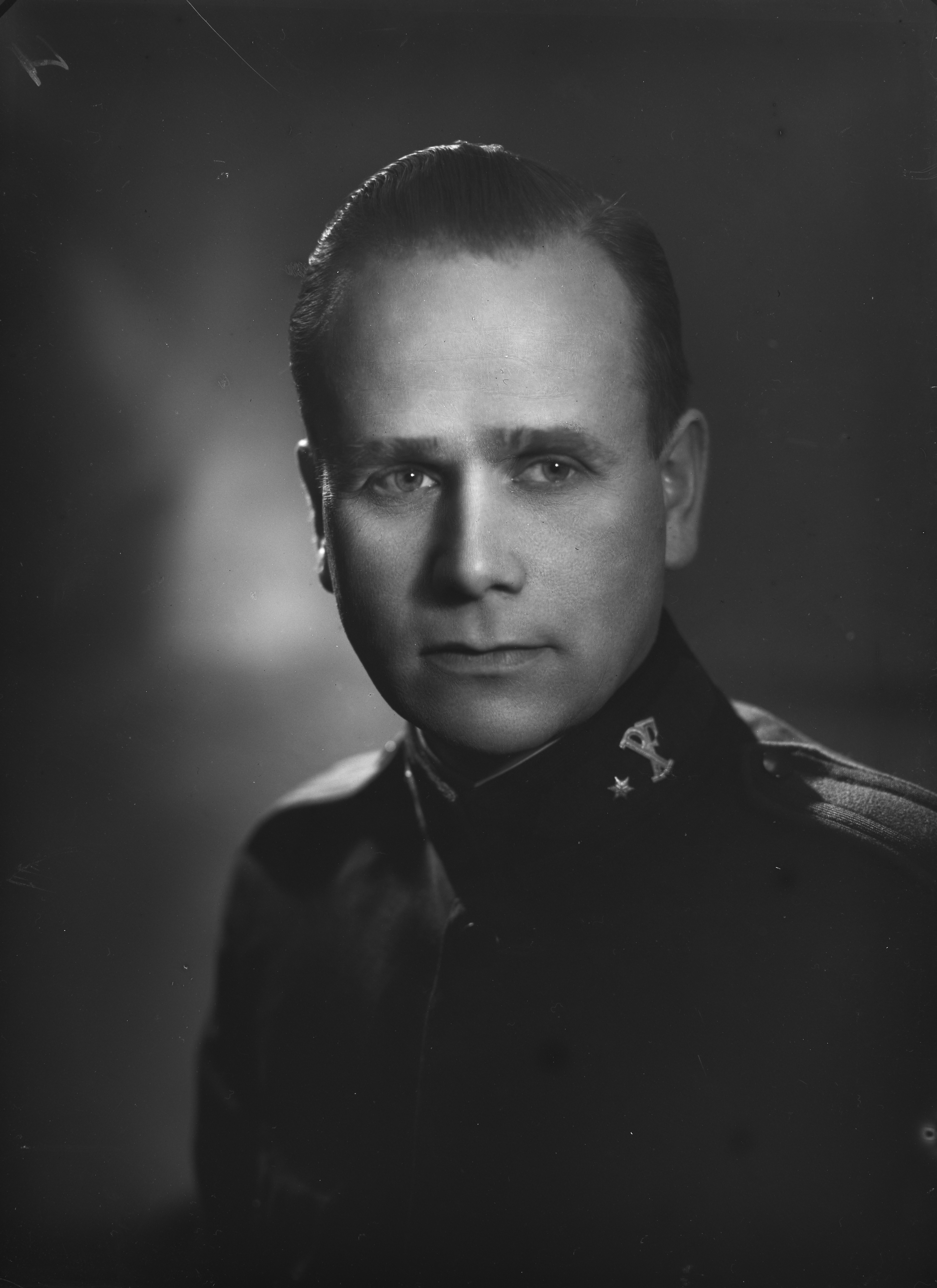 Photograph of the Finnish colonel Georg Lucander (1895–1966).